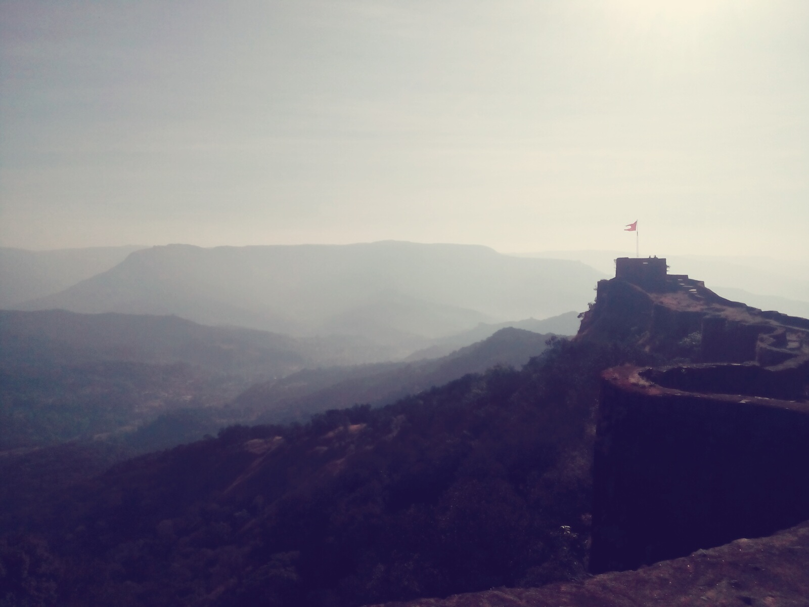 raigad visit